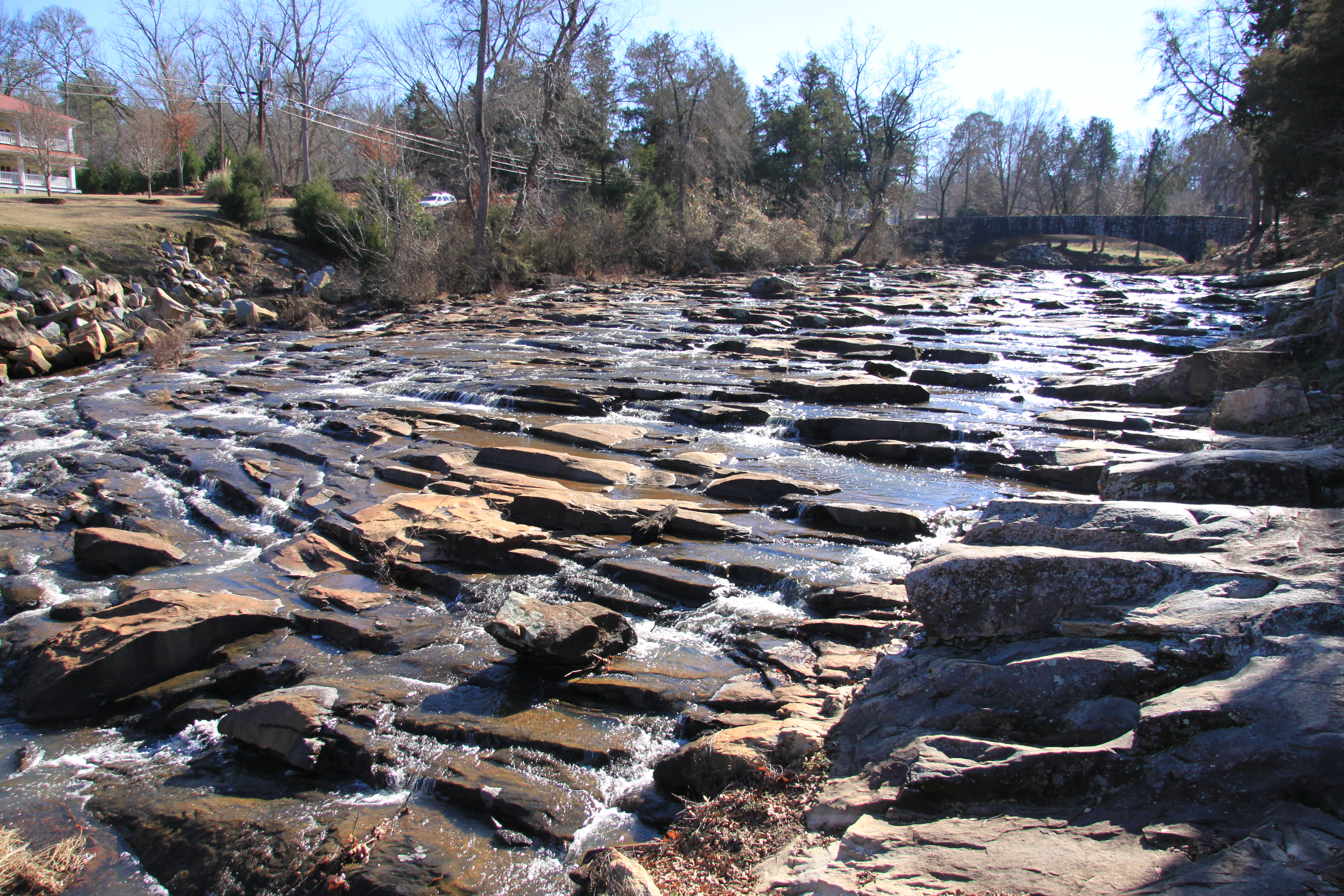 Indian Springs State Park - river tumbling over rocks